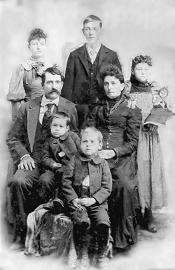 family photo album Category:United States history images